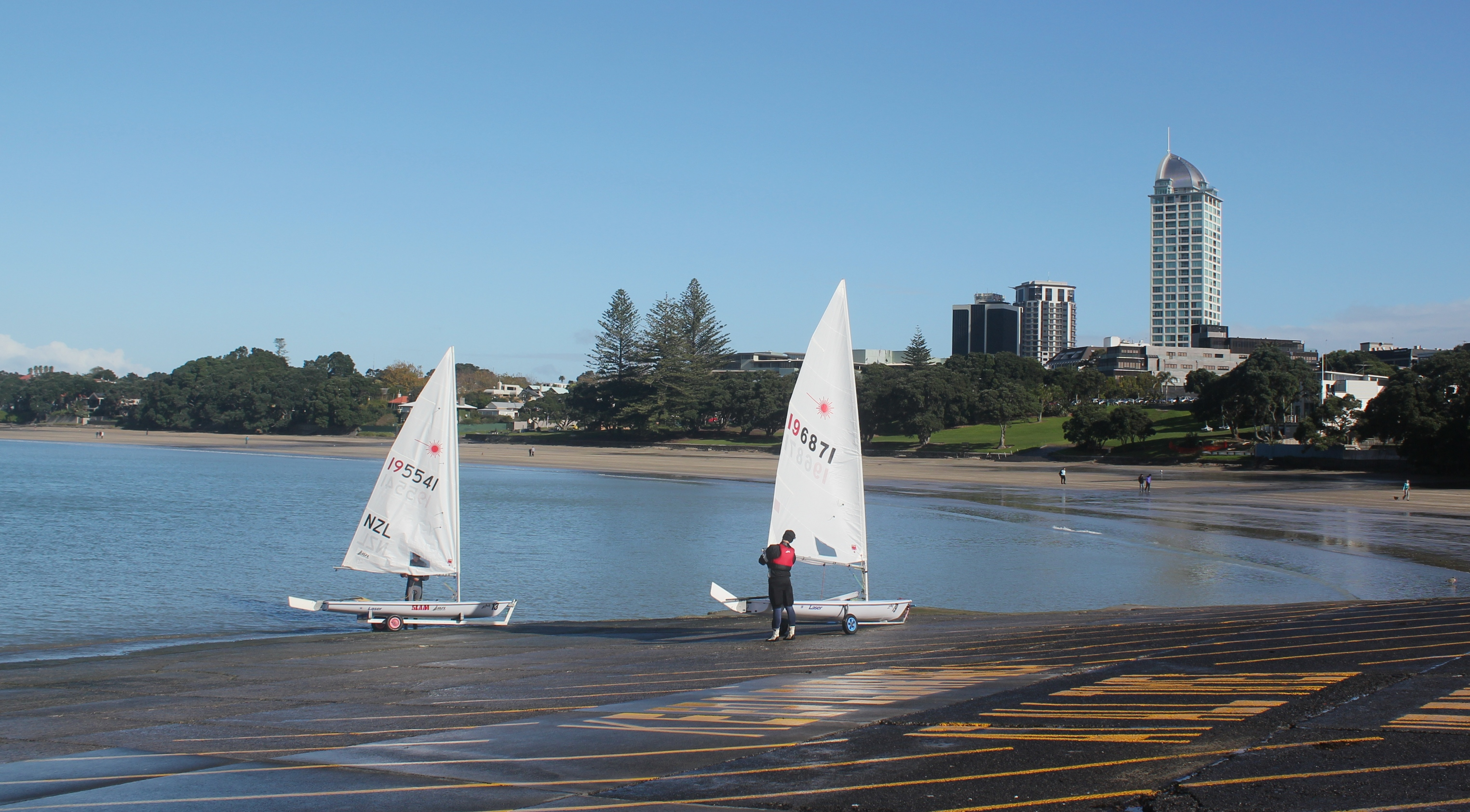 Sailors get their boats ready on the boat ramp at the north end of Takapuna beach, Auckland, New Zealand.